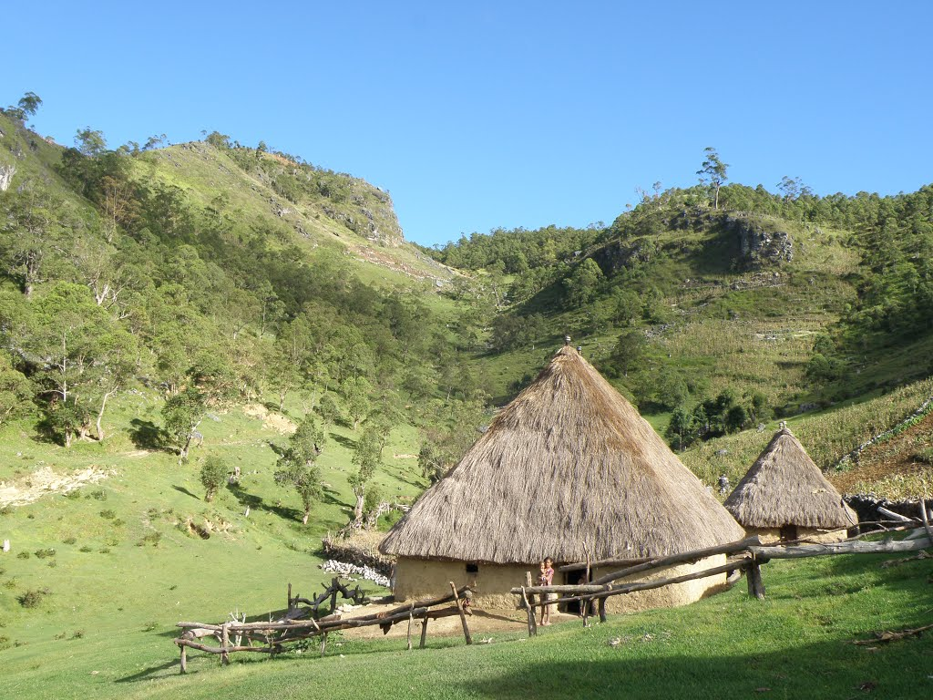 Life in the clouds. traditional huts near Hatu Builico, Ainaro, Timor-Leste